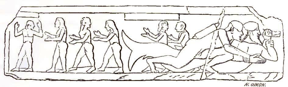 ancient pediment found on Acropolis